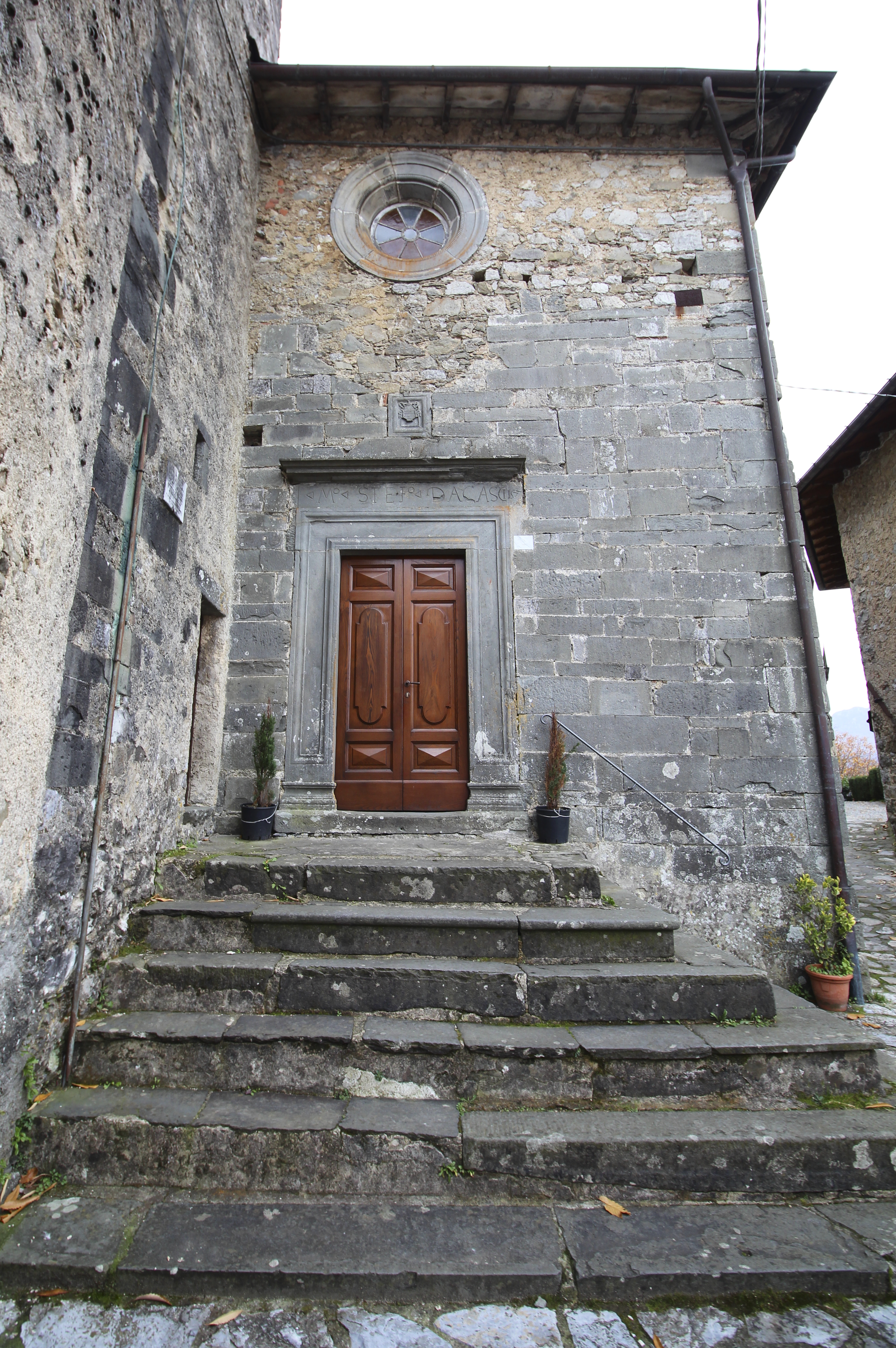 Church Santa Elisabetta, Trassilico, hamlet of Gallicano, Garfagnana, Province of Lucca, Tuscany, Italy